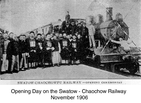 Phototograph of the opening of th Chaochow - Swatow Railway in China 1906